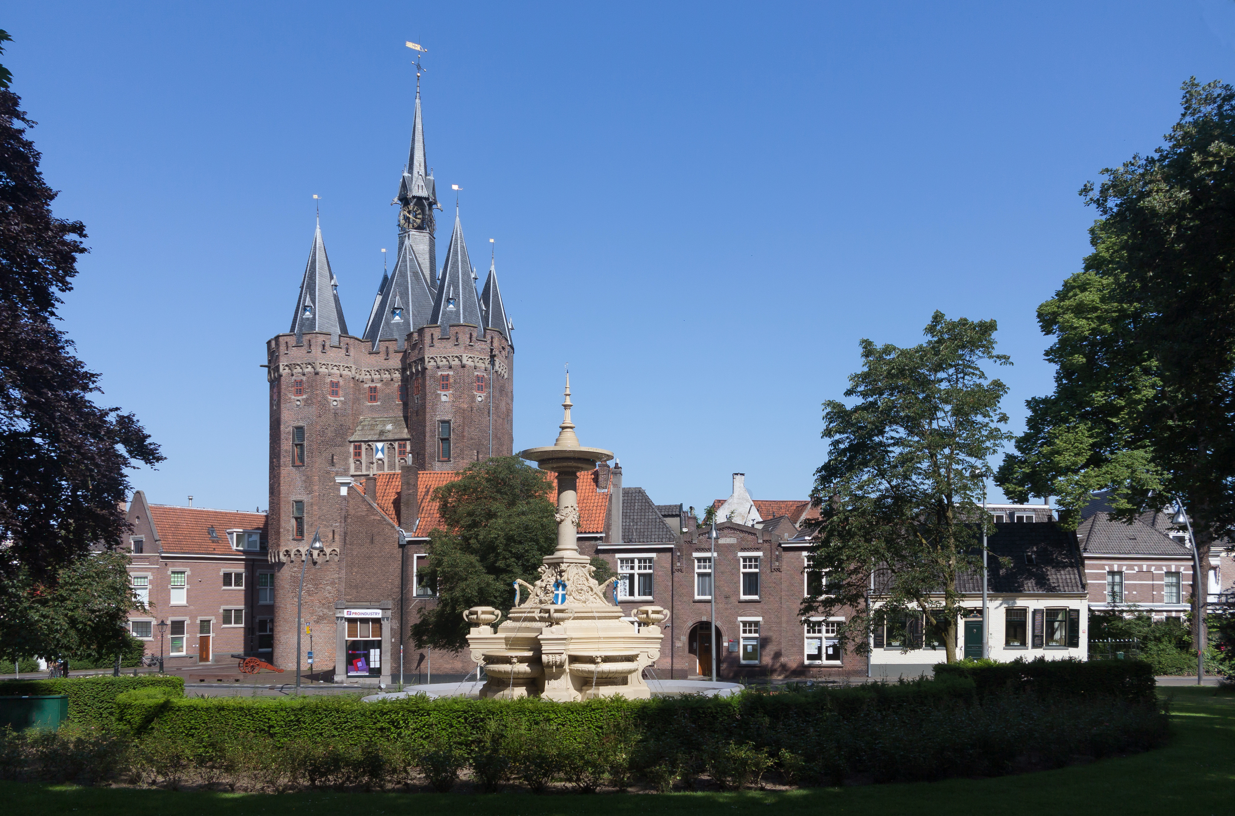 Zwolle, fountein near het Van Nahuysplein with town gate ( de Sassenpoort) in the background